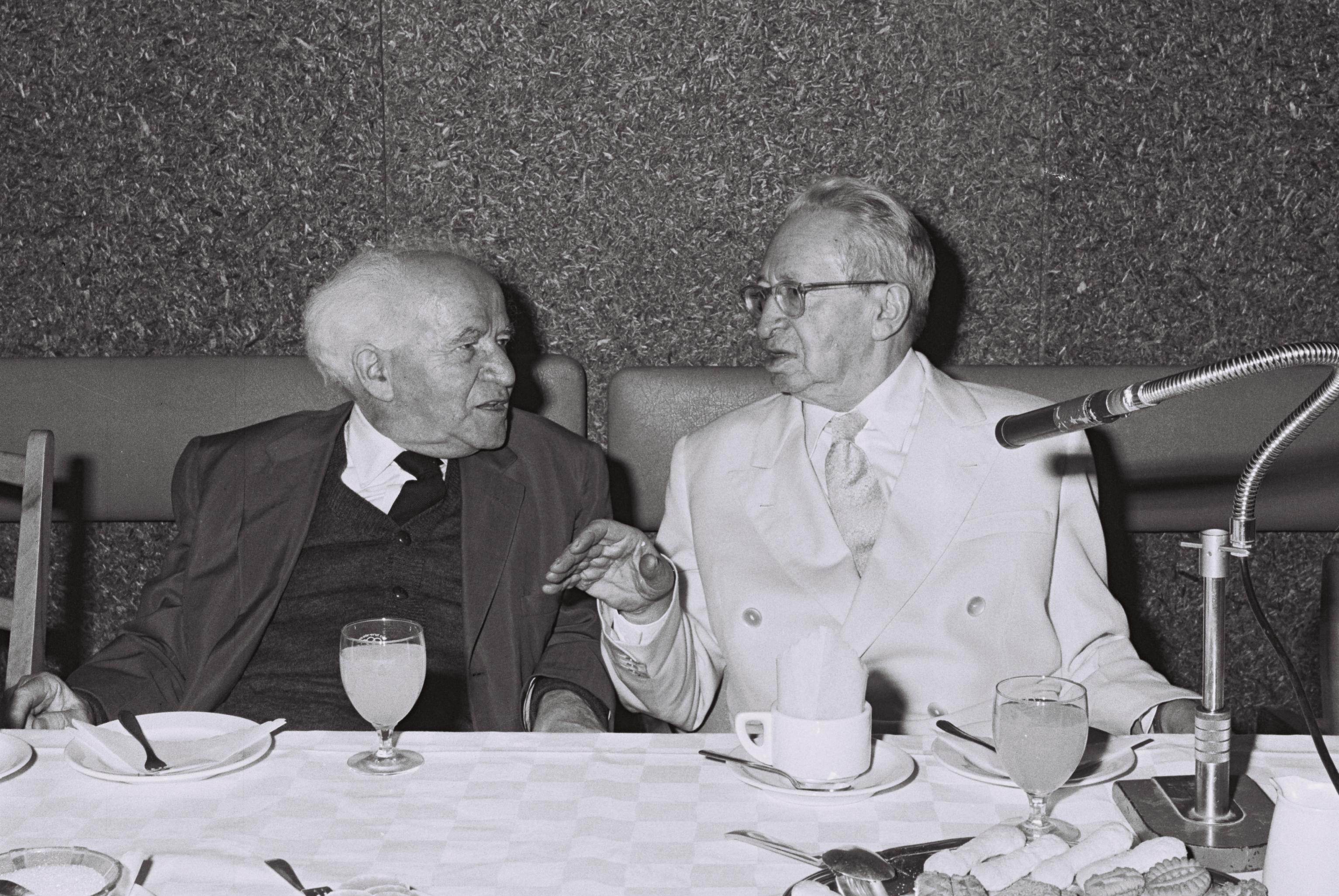 President Yitzhak Ben Zvi with PM David Ben Gurion at Lydda airport on the former's return from a state visit to Burma. Photograph: COHEN FRITZ, GPO. 28/10/1959.